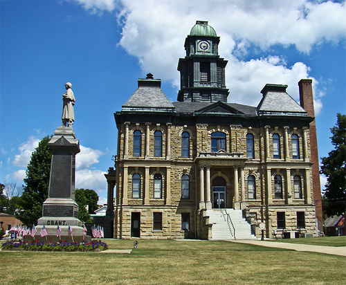 Holmes County Court House and Grant Memorial Statue (Left)